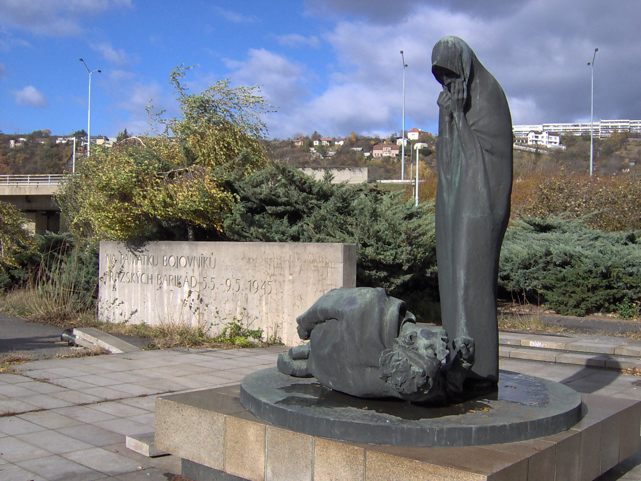 Sculptural group near Barricade Defenders Bridge in Prague, glorifying combatants of Prague uprising, sculptor Josef Malejovský, 1984, bronze